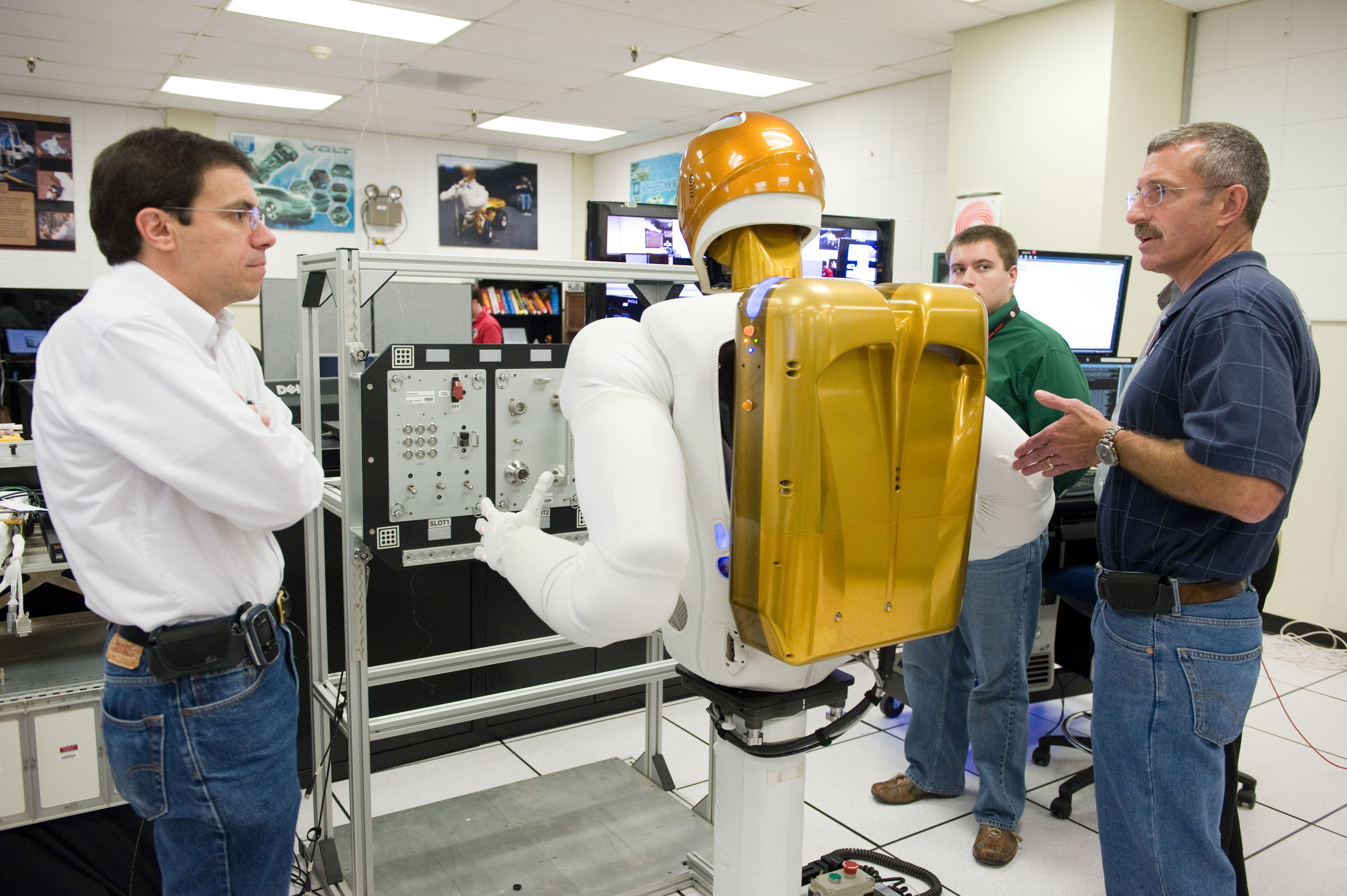 JSC2011-E-056899 (17 June 2011) --- NASA astronaut Dan Burbank (right), Expedition 29 flight engineer and Expedition 30 commander, participates in a Robonaut familiarization training session in the Space Environment Simulation Laboratory at NASA's Johnson Space Center. Ron Diftler (left), NASA Robonaut project manager, assisted Burbank.